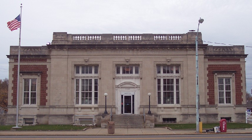 Front of the post office in Princeton, Indiana, United States. Built in 1911, it was photographed by Kurt Weber (User:Kmweber) on November 5, 2006.